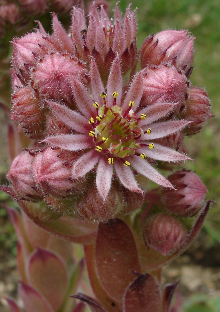 Sempervirum tectorum, , Jardin alpin, Jardin des Plantes de Paris